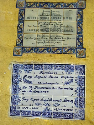 CFSGA 3